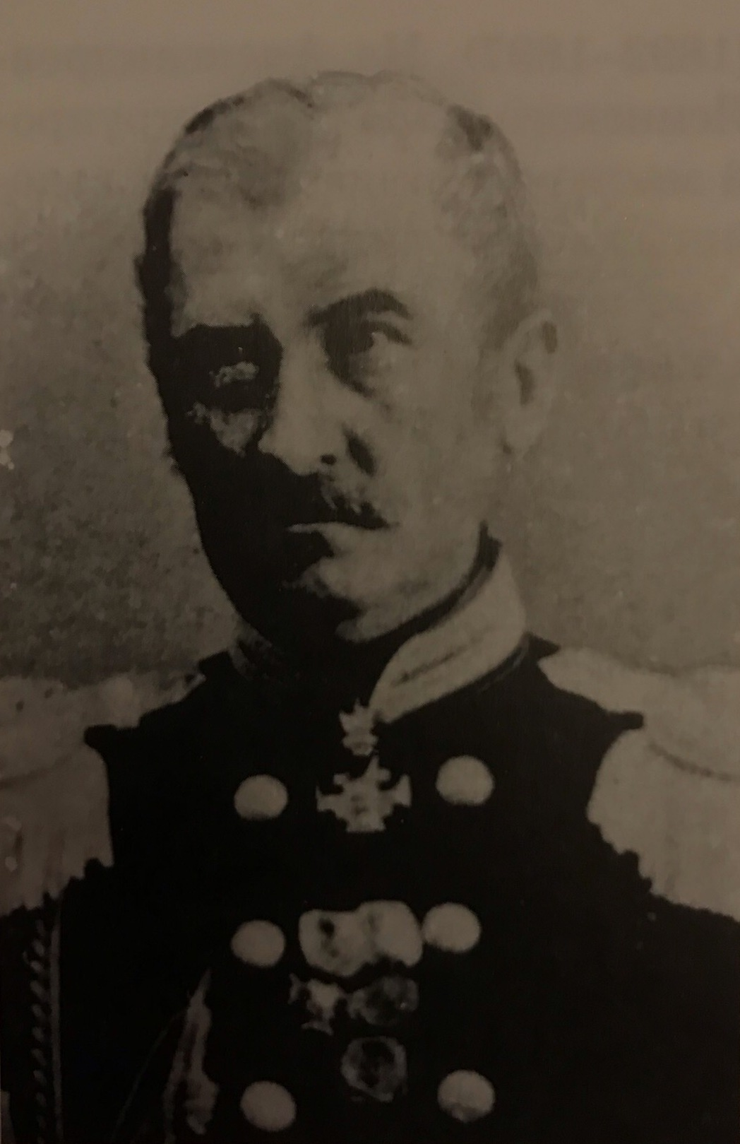 N.F. Yastrzhembsiy